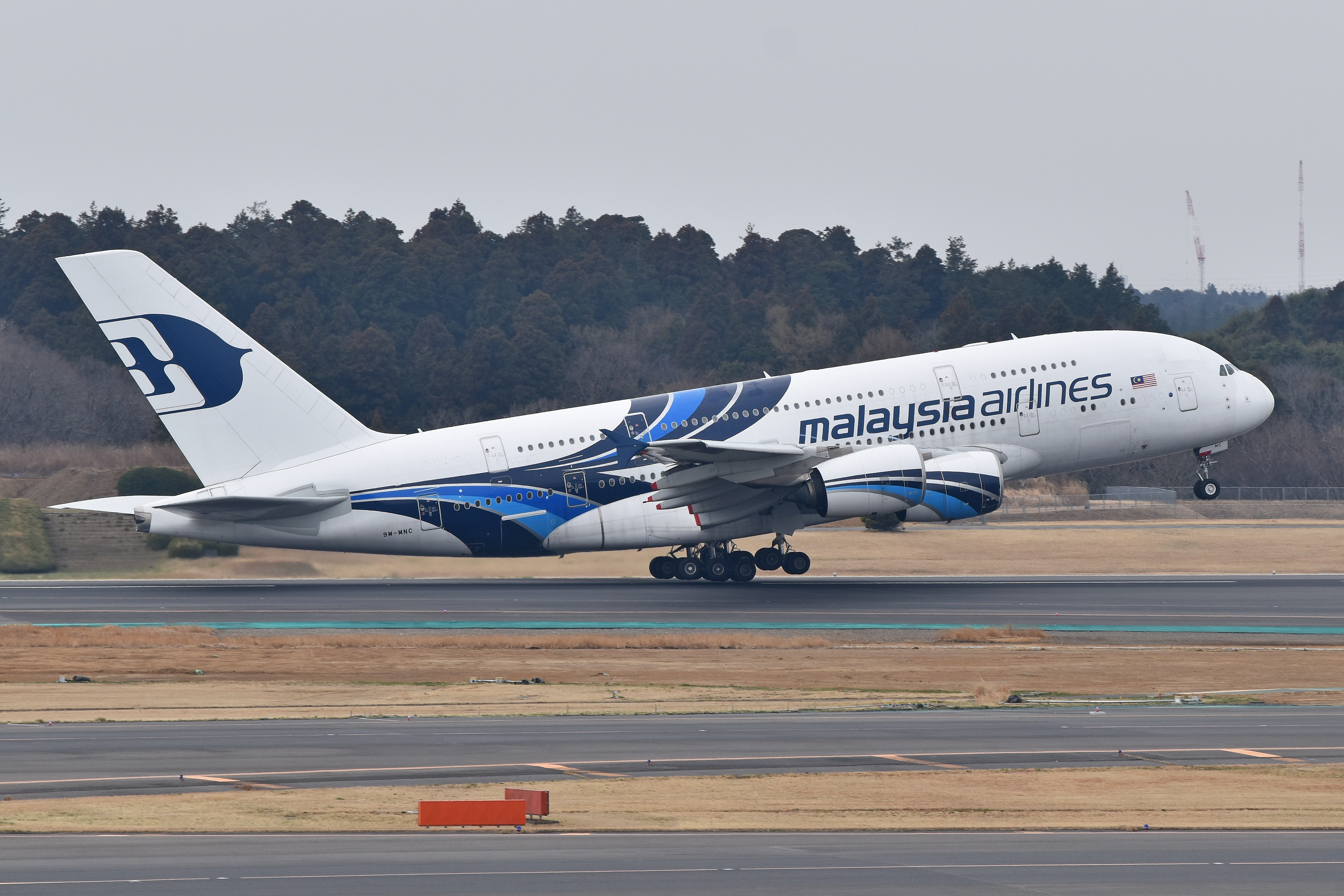 c/n 084 Built 2012 Departing on flight MH89 / MAS89 to Kuala Lumpur Seen from Terminal 1 viewing terrace. Narita International Airport Tokyo, Japan 16th March 2019